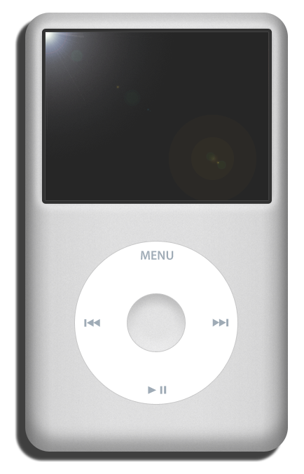 iPod classic front view